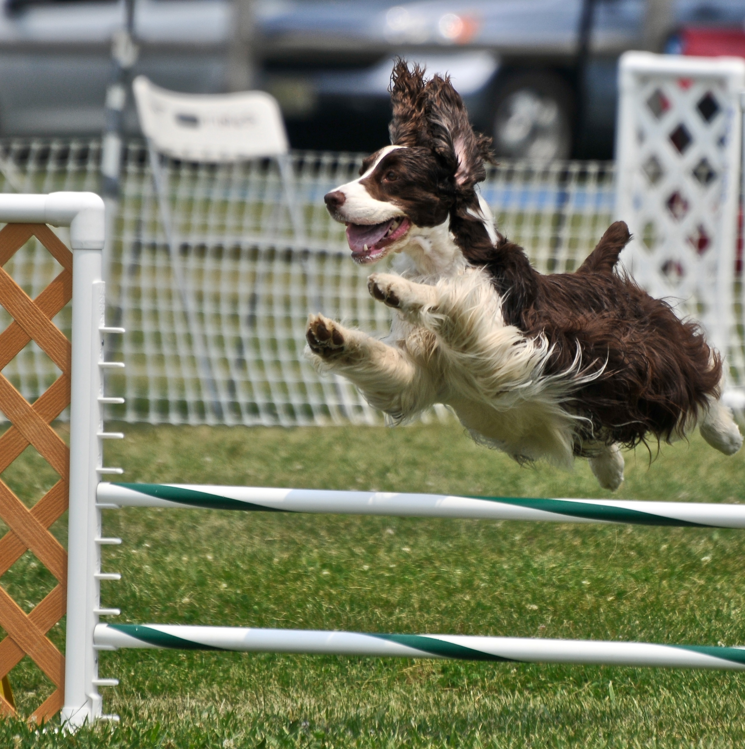 Image of a dog in a dog agility.